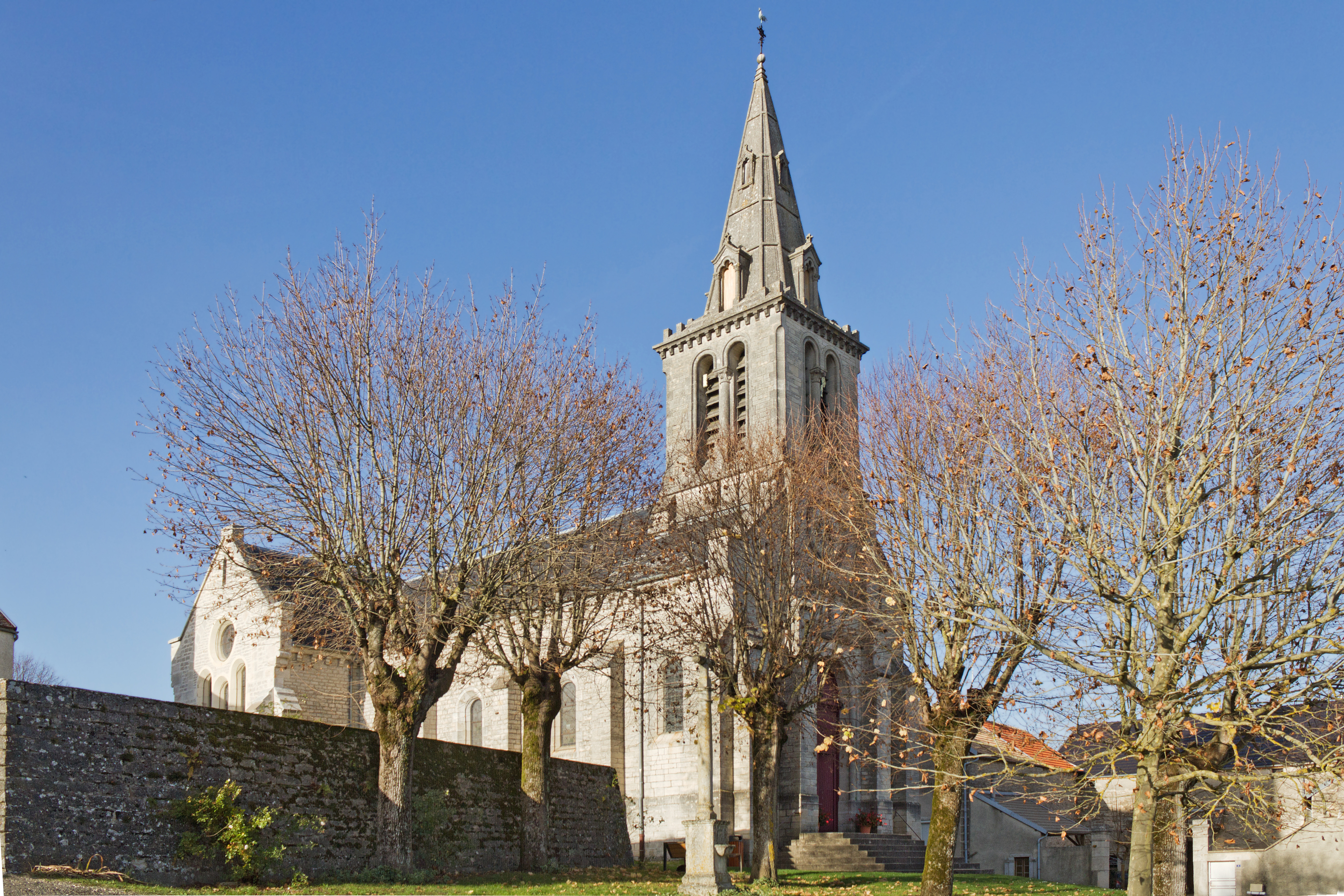 St Peter church in Chaignay